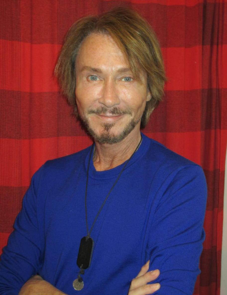 Christer LindarwPlace: Lars Jacob residence, Stockholm, Sweden